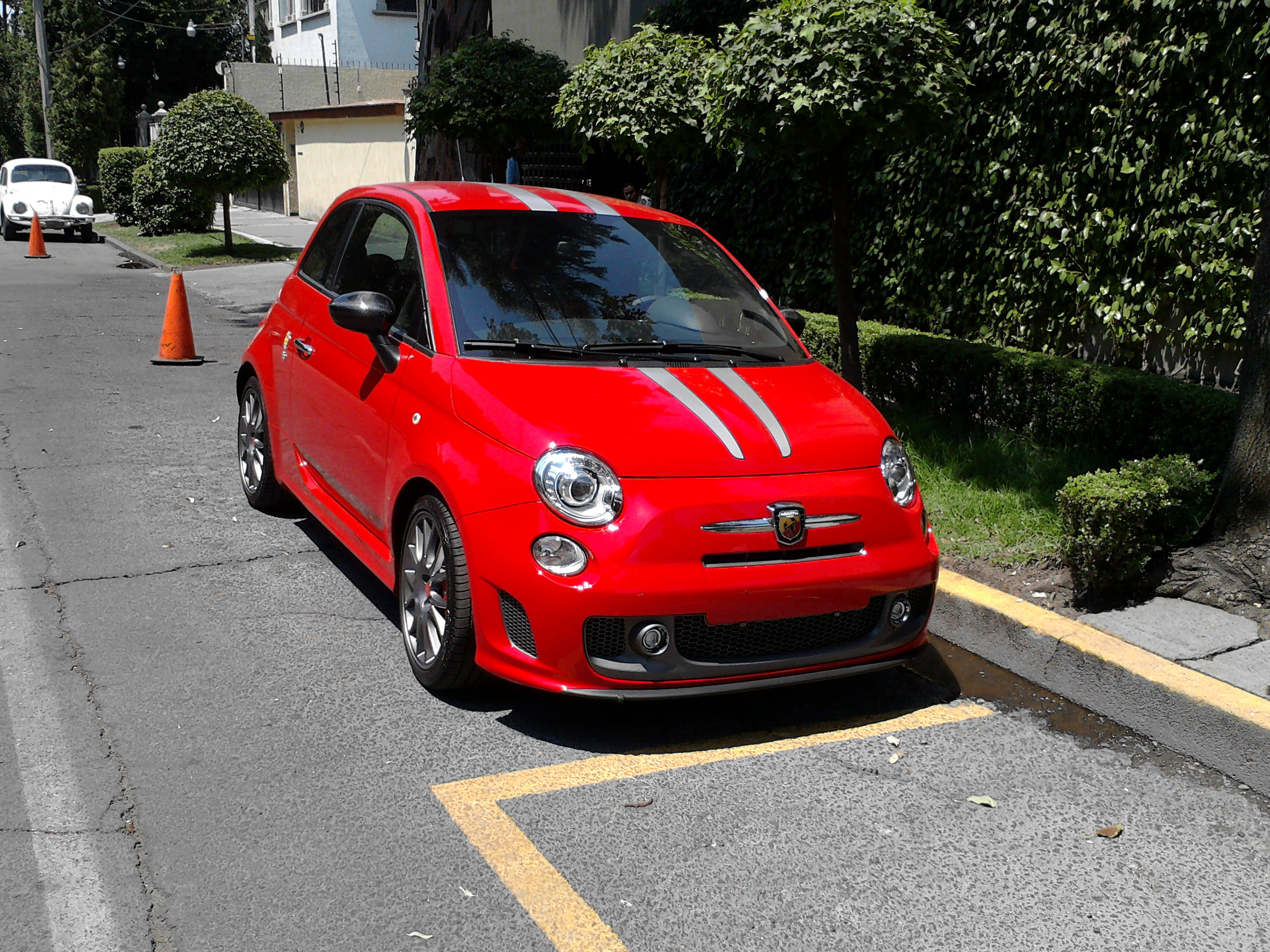 This photo was captured with a camara LG GM360 in Mexico City